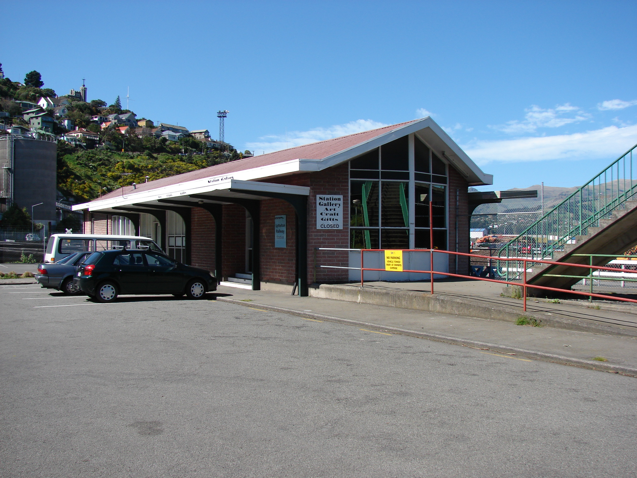 Lyttelton railway station. Photographed by Matthew25187 on 2007-10-07.